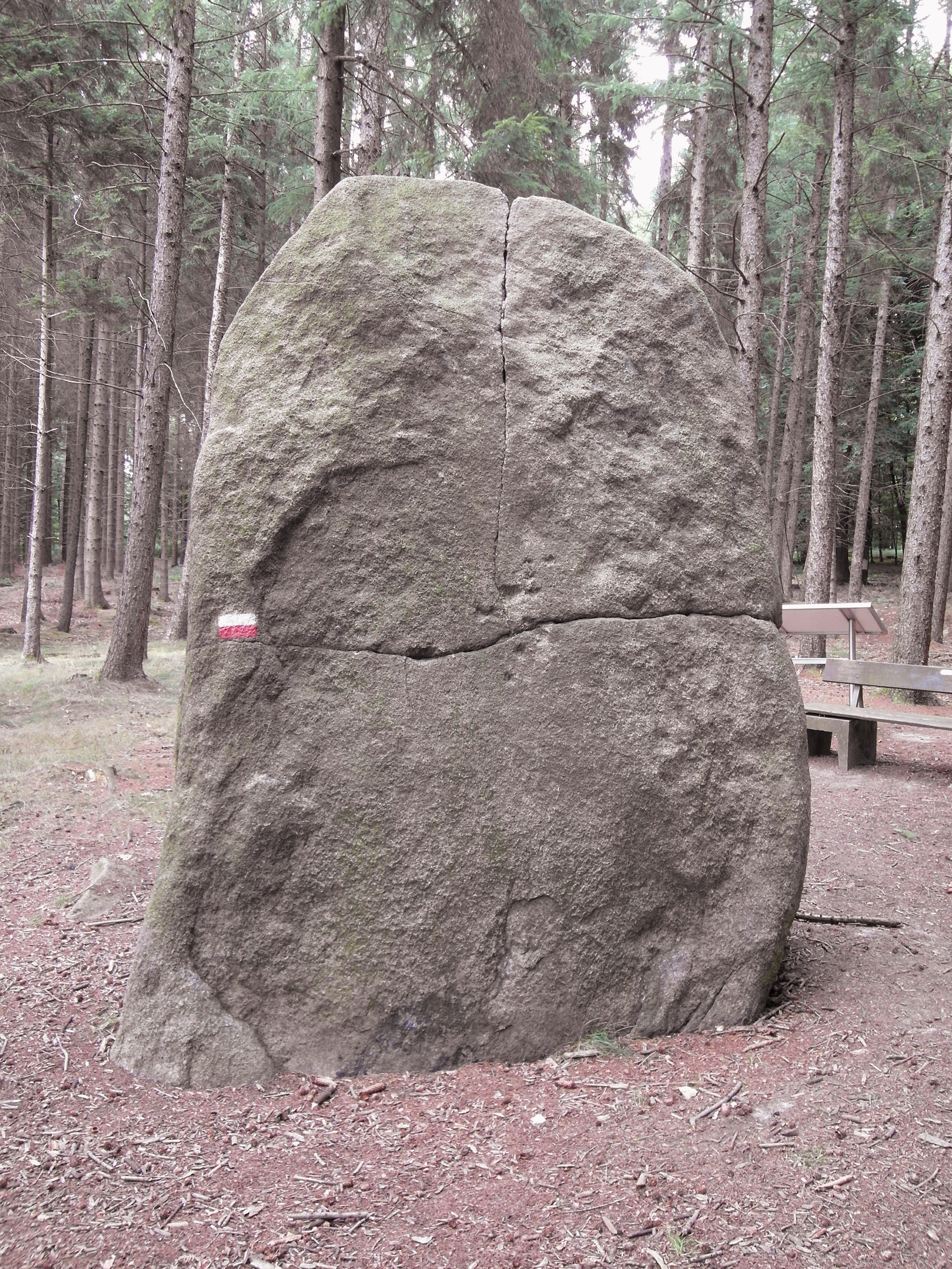 Menhir "Süntelstein".